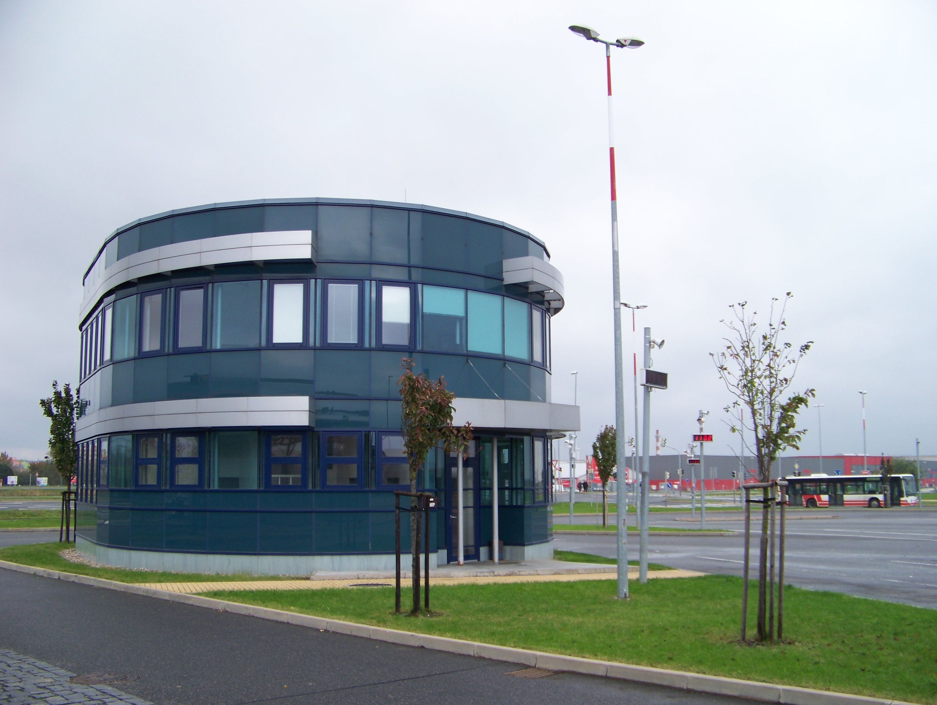 Prague-Letňany, Czech Republic. Bus terminal Letňany.